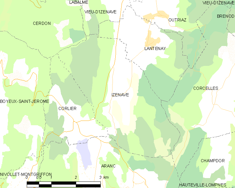 Map of French commune: Izenave Map commune FR insee code 01191.png